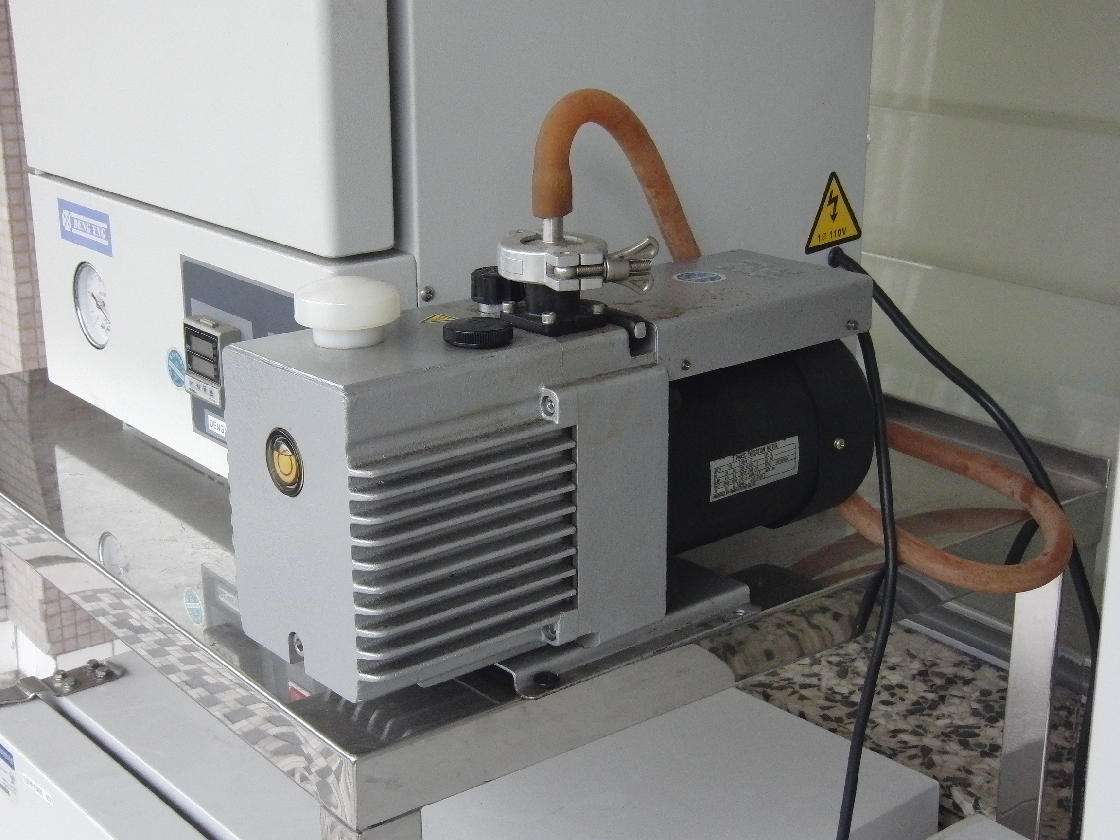 Oil vacuum pump